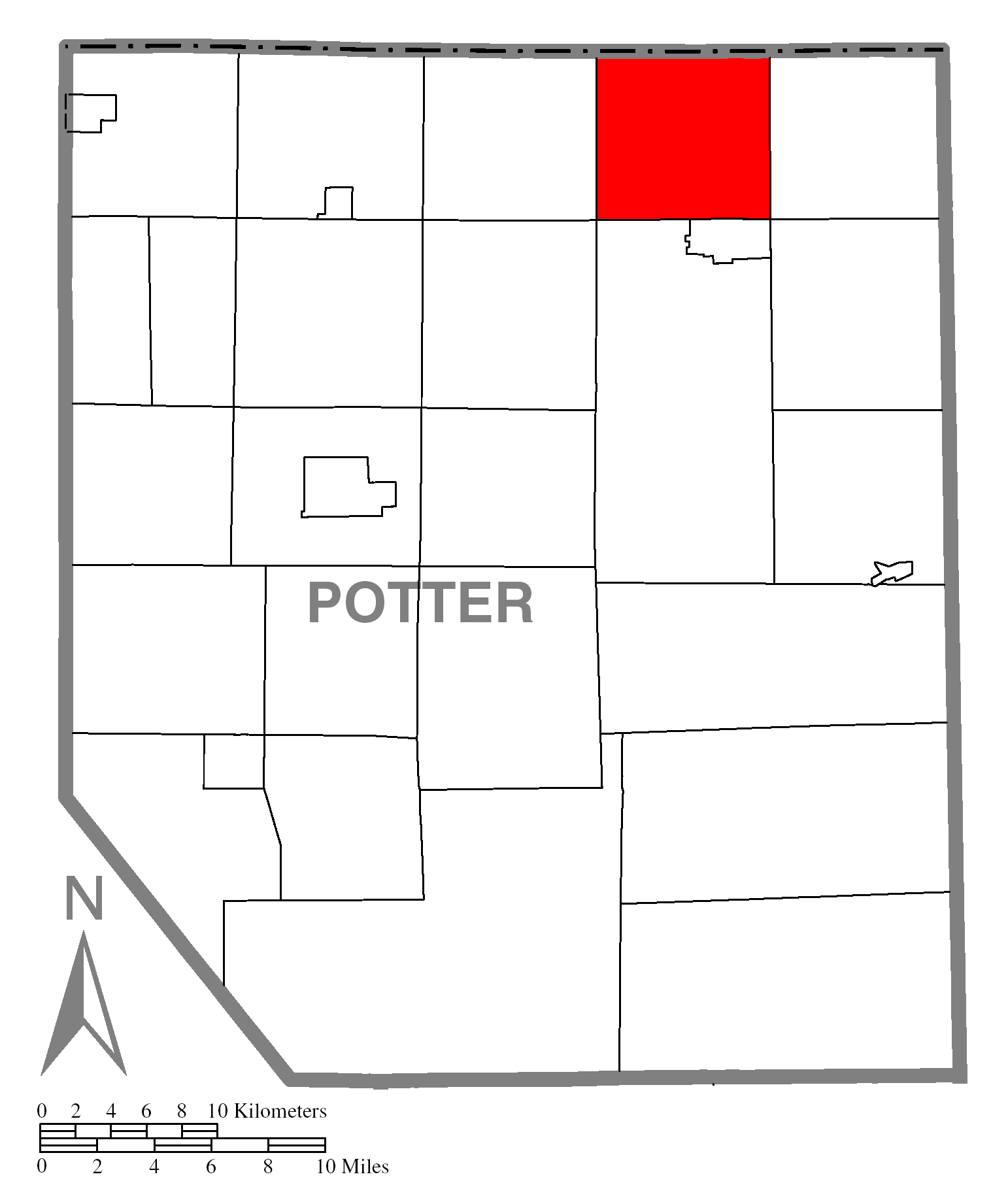 A map of Potter County showing Bingham Township, Pennsylvania (alternate) highlighted on the map.